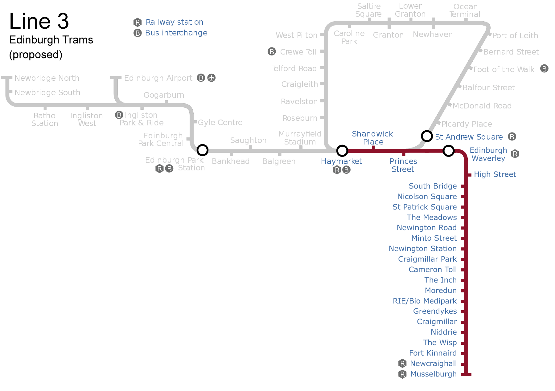 A map showing the extent of the track and stops of the Edinburgh Trams system put forward in 2001. Highlighted here is the proposed Line 3 service, against a background also showing the track needed for proposed Lines 1 & 2. Line 3 never got past the planning stage, being postponed indefinitely after a funding proposal using a traffic congestion charge was defeated in a referendum in 2005. Lines 1 & 2 did gain parliamentary approval in 2006, but after various revisions and cancellations, the only part of the line that was eventually opened in 2014 is the section from Airport to York Place (between St Andrew Square and Picardy Place).